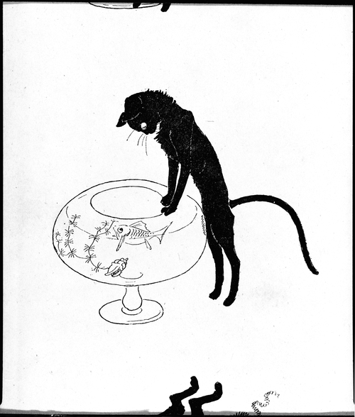 Black cat watching fish at the bowl-aquarium